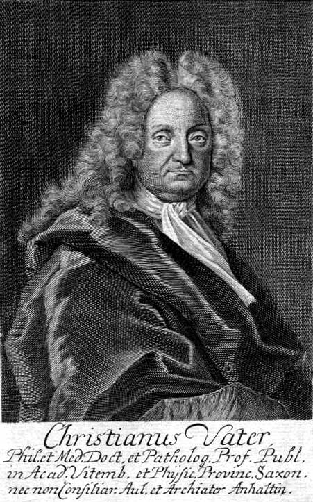 Christian Vater (1651–1732), German physician